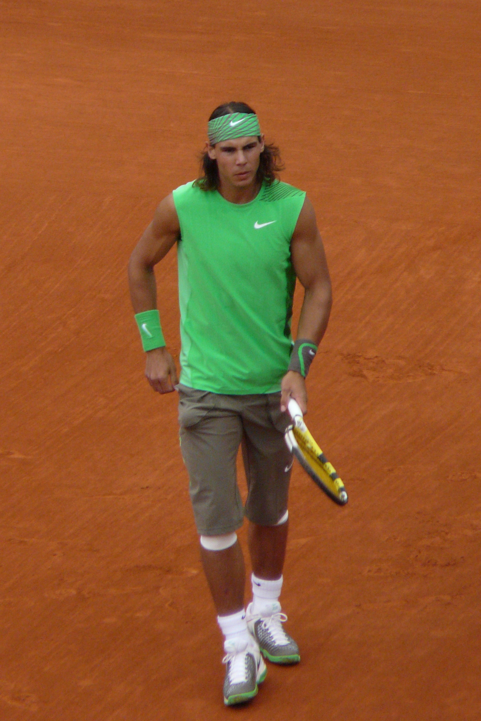 Rafael Nadal against Nicolás Almagro in the 2008 French Open quarterfinals